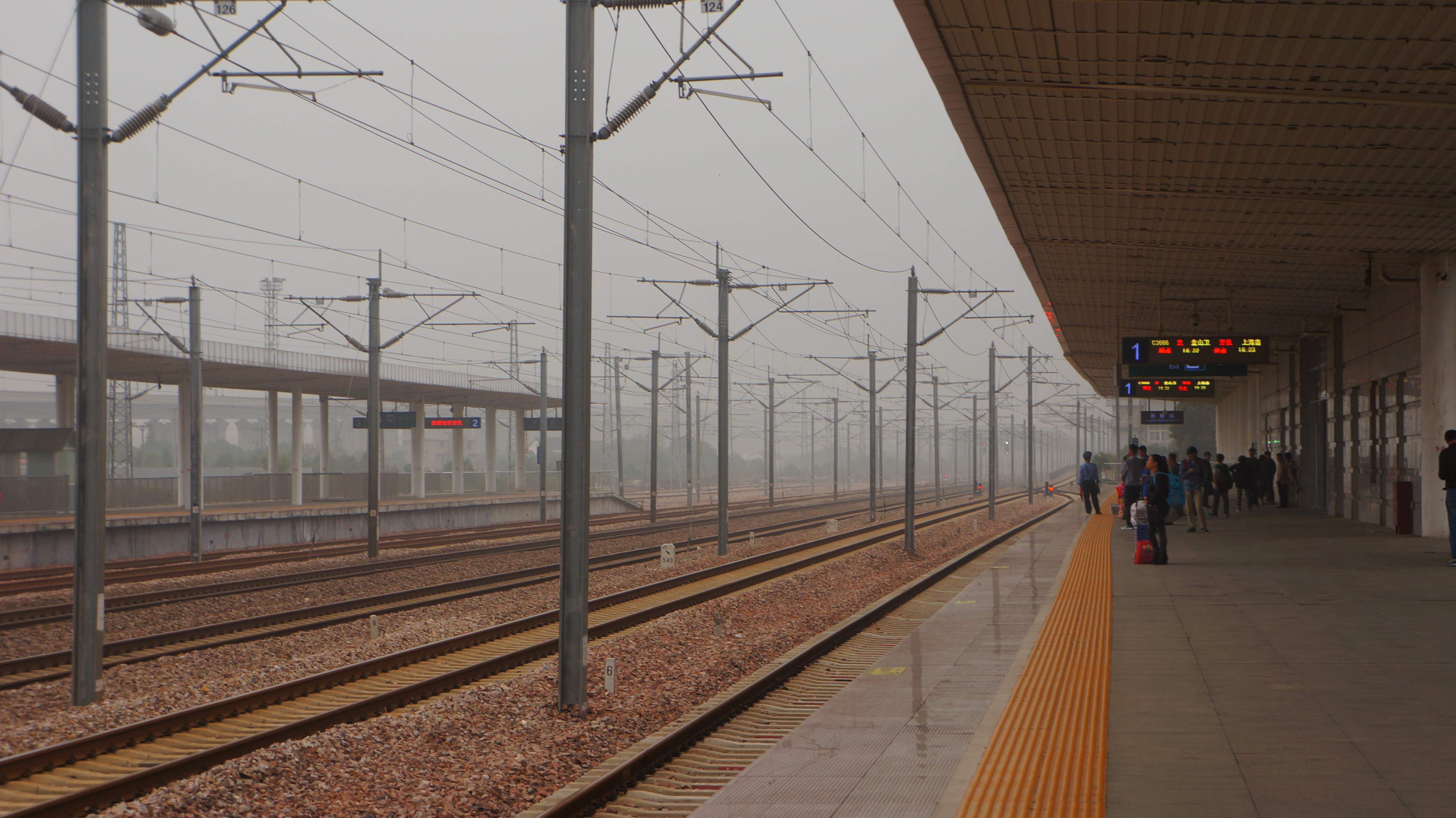 Platform 1 of Xinqiao Railway Station.